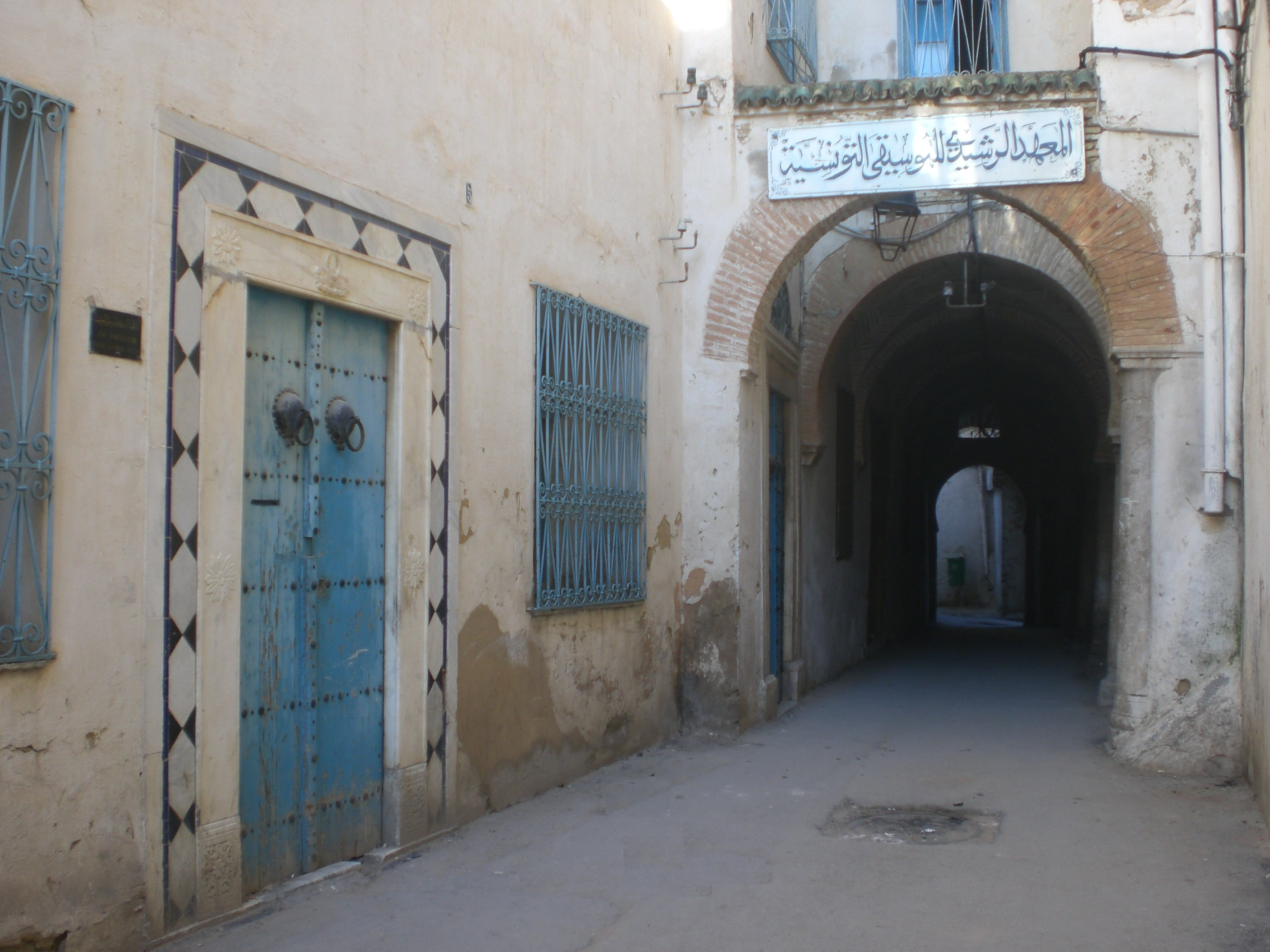 The siege of Al-Rachidia-Tunis